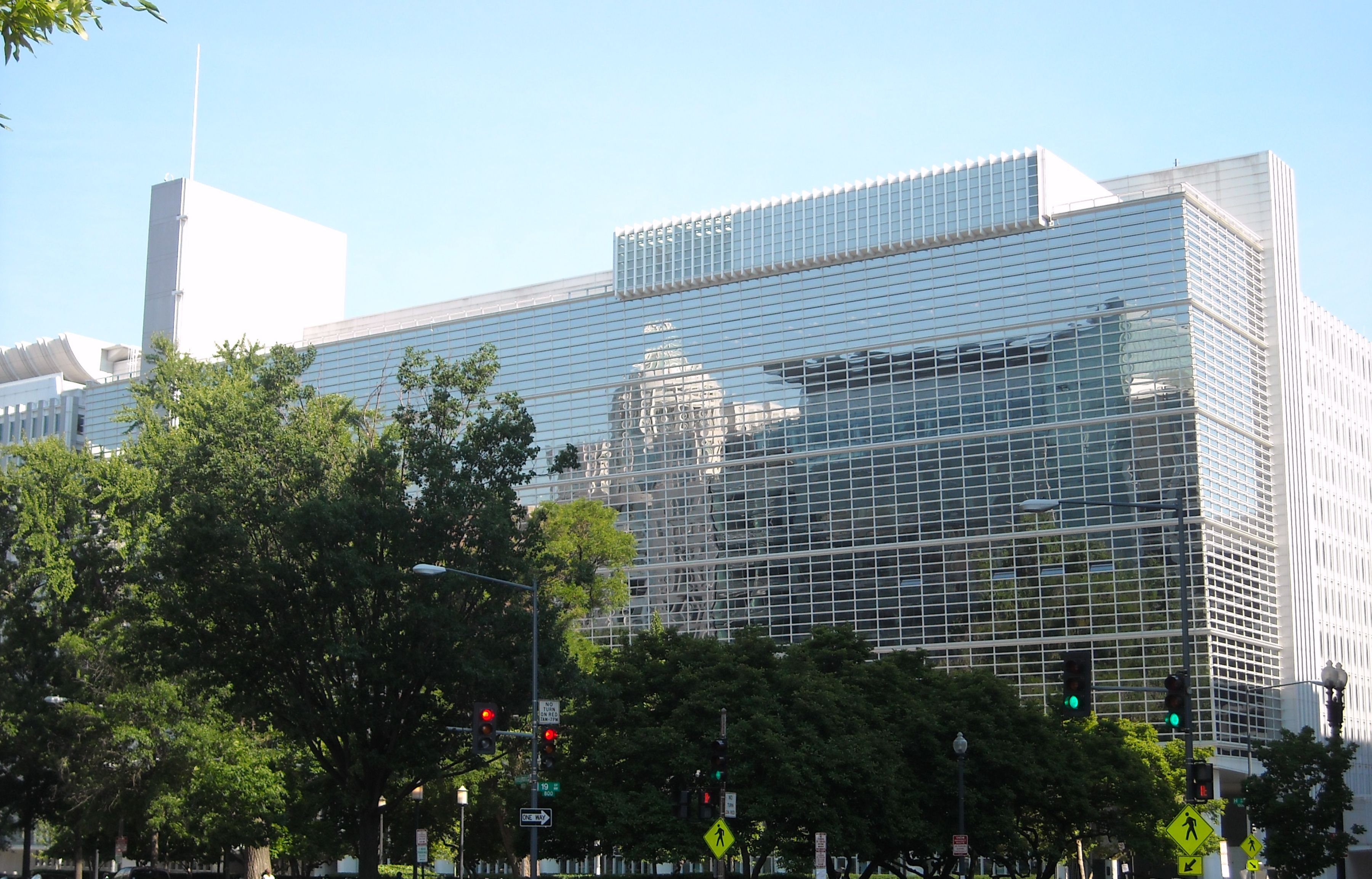 The World Bank Group headquarters buildings in Washington, D.C. Adjacent second building, designed by Kohn Pedersen Fox.